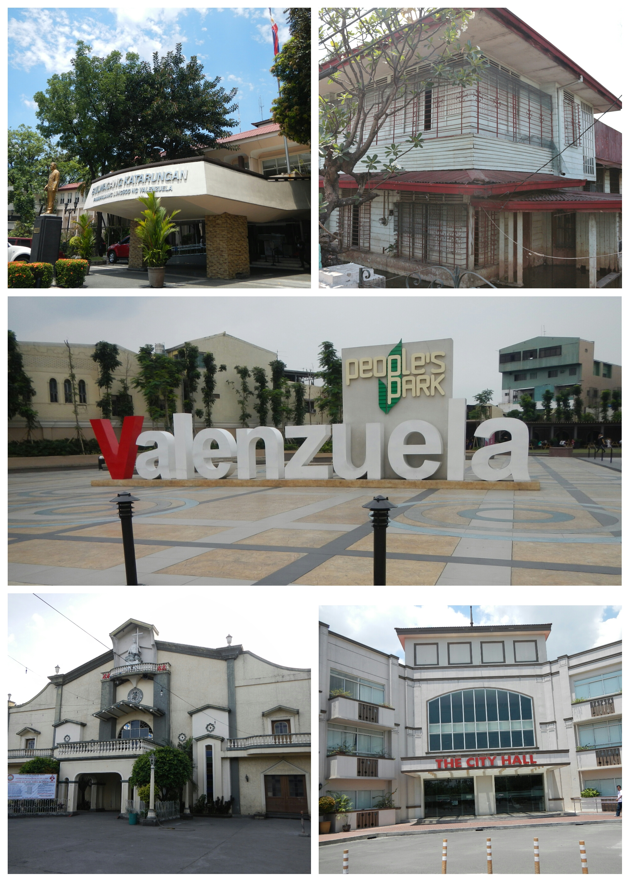 Montage of Valenzuela City in the Philippines